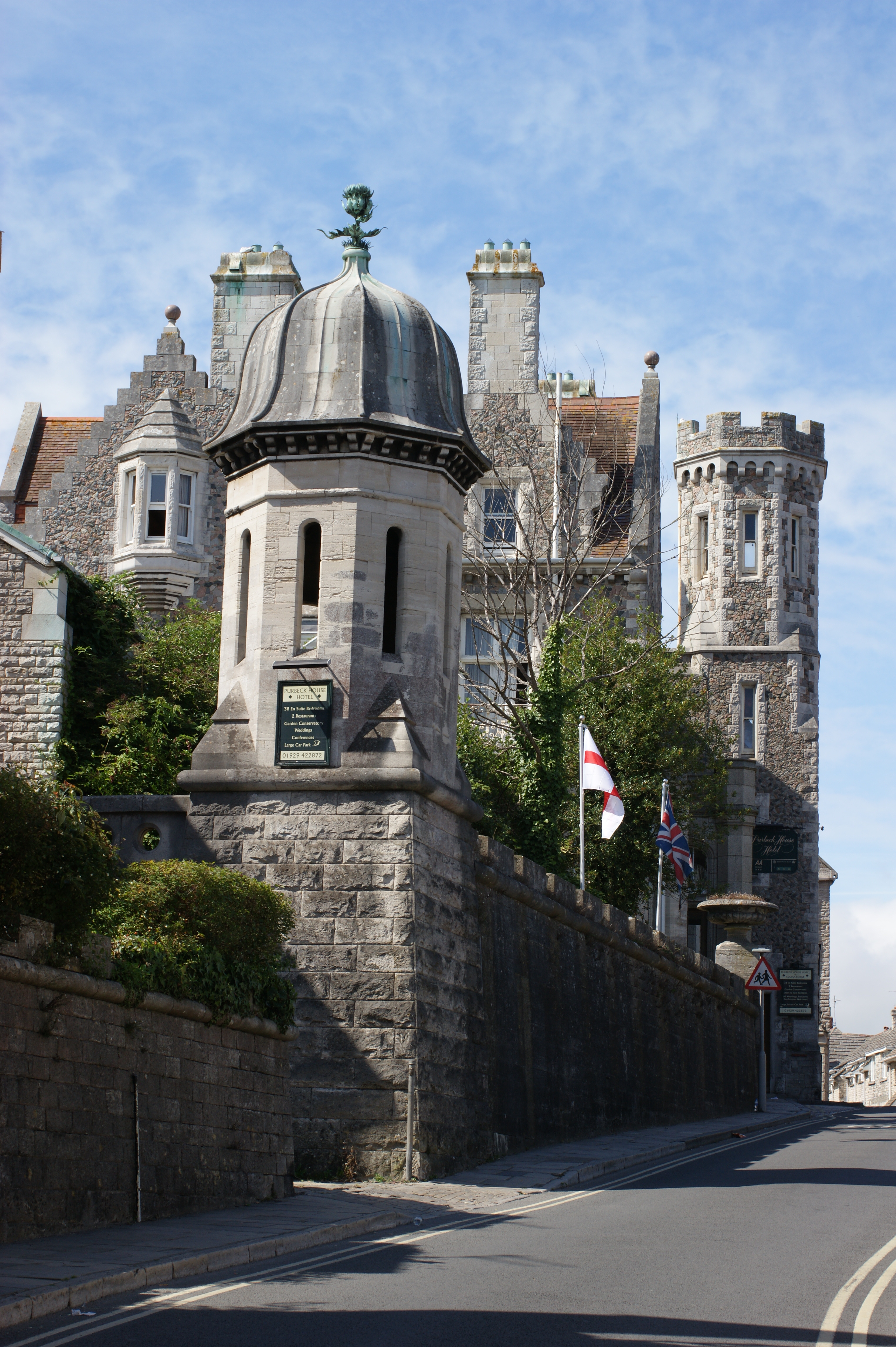 The Purbeck House Hotel in Swanage, Dorset.